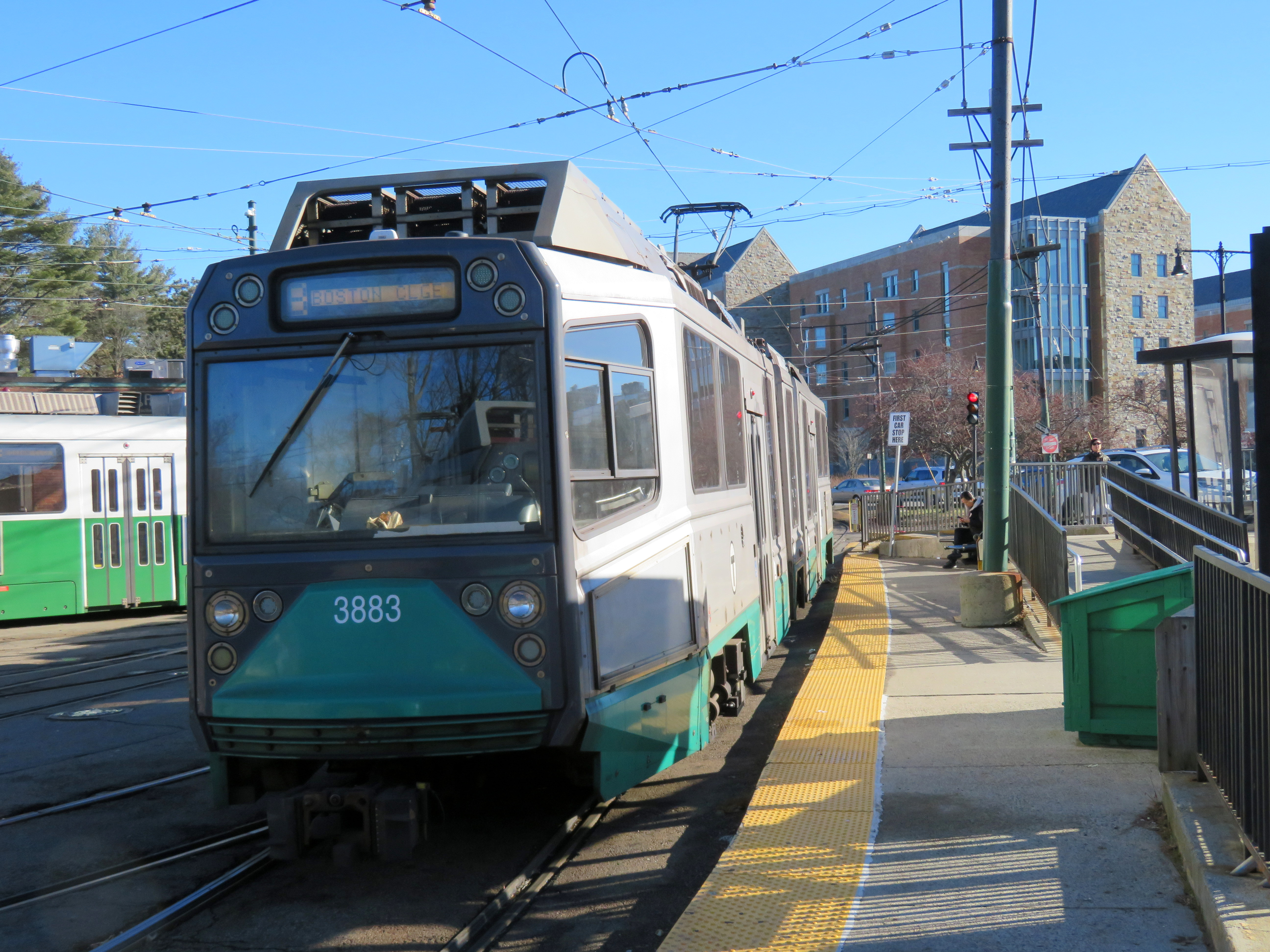 An inbound train at Boston College station in December 2018